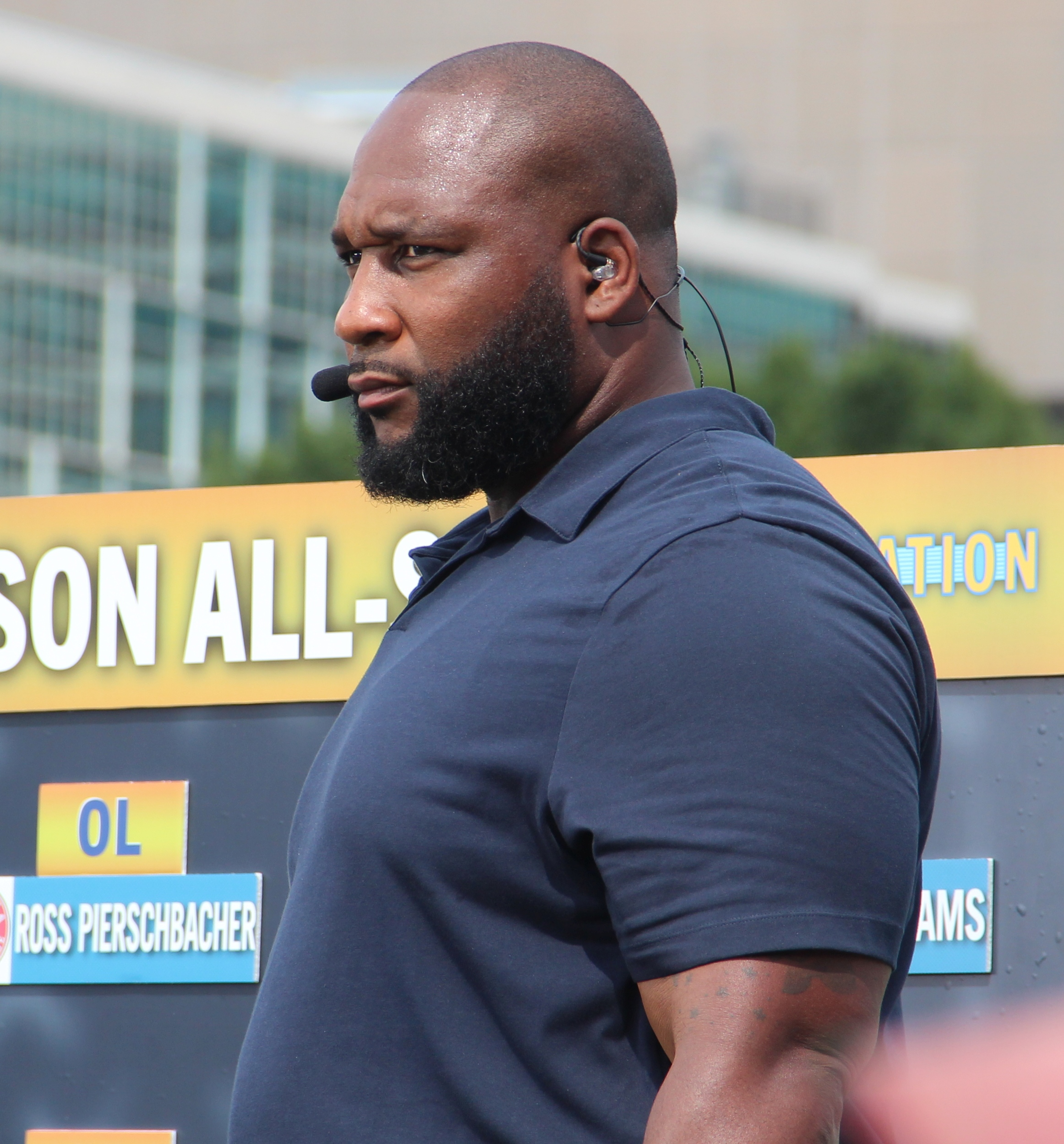 Marcus Spears at the 2018 SEC Summerfest